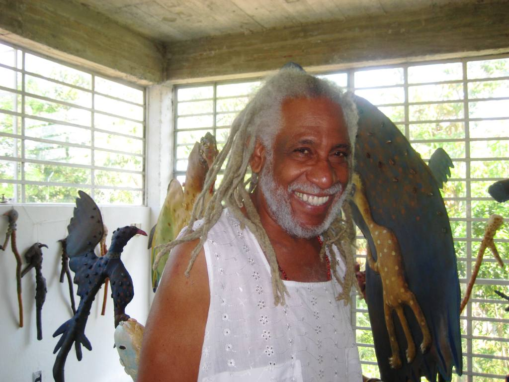 Photograph of Cuban naïve artist Manuel Mendive.